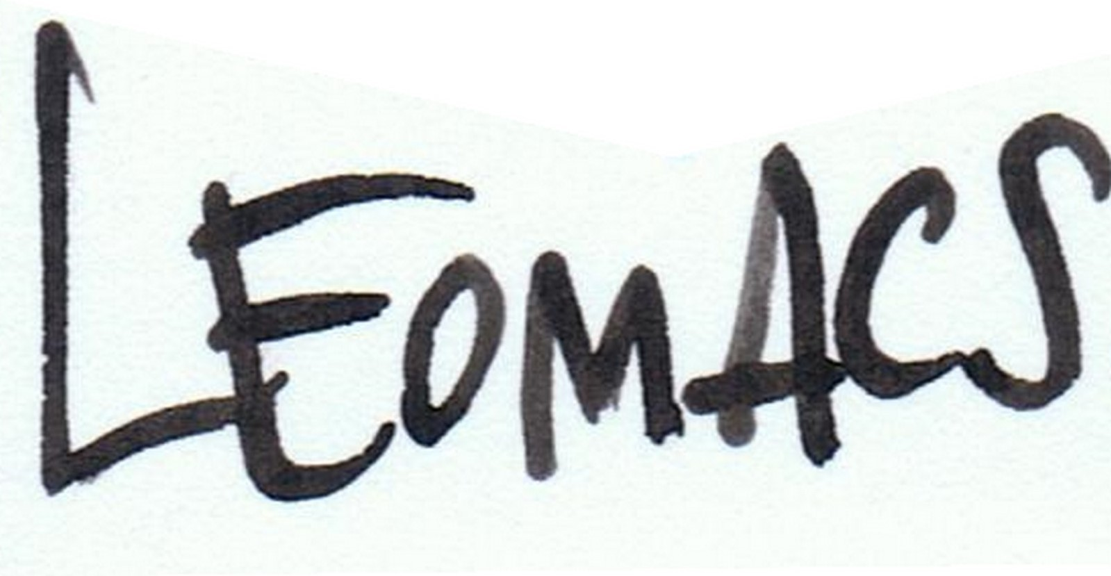 Leomacs signature